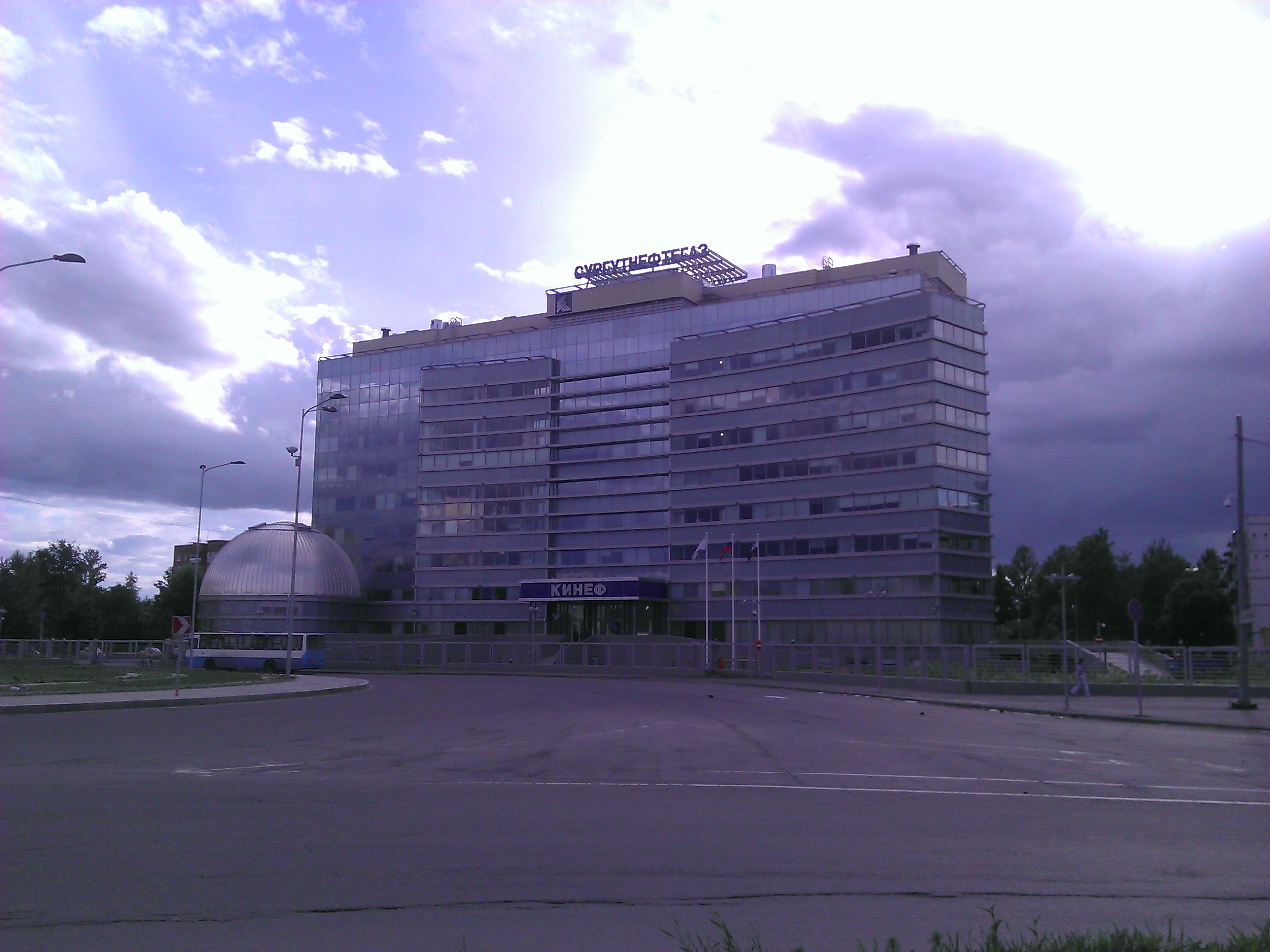 Kinef Office, Kirishi, Russia